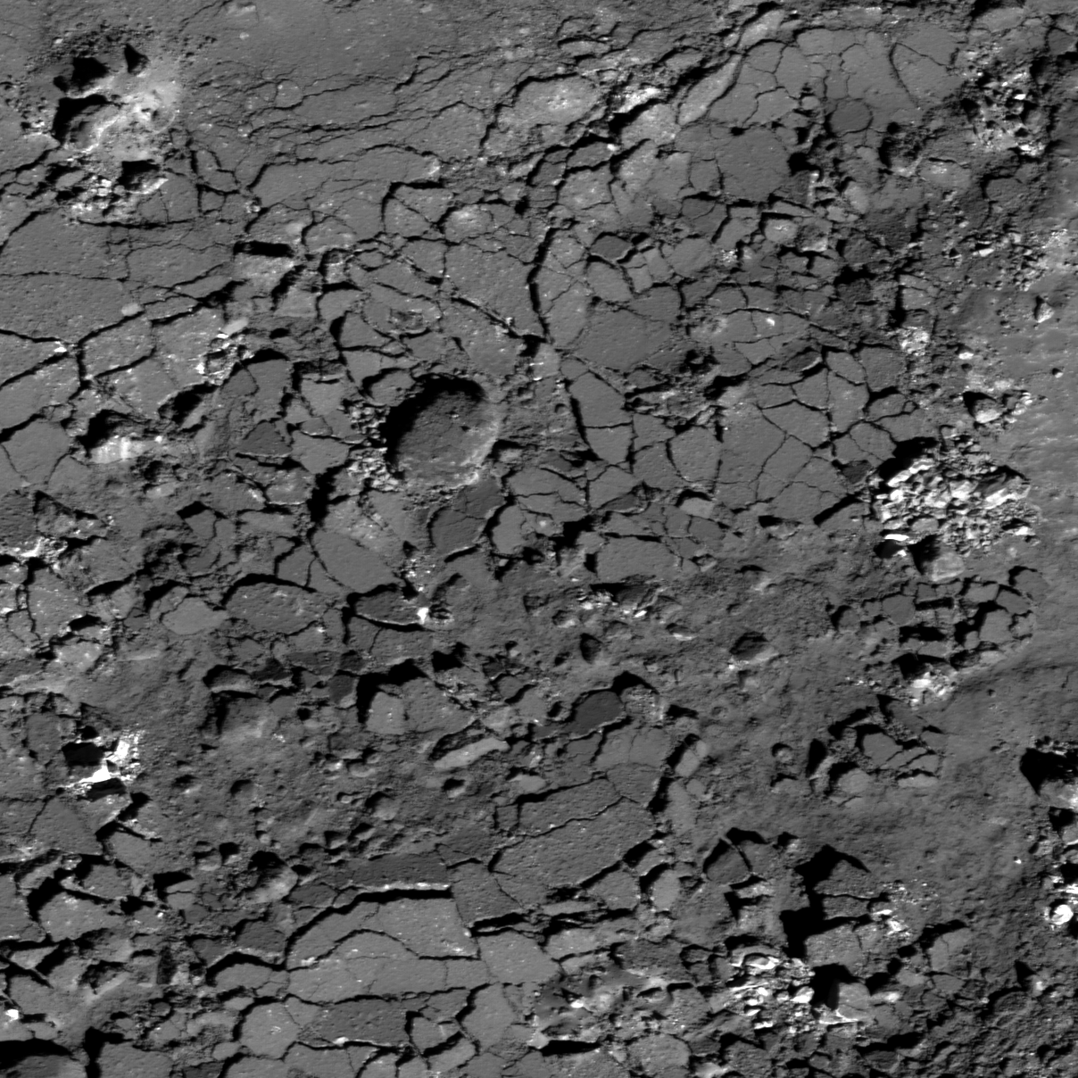 Western floor of Giordano Bruno crater. LROC NAC M110919730L, 0.61 m/pixel, image width is about 737 m. Illumination is from the lower right, incidence angle is 42° .NASA/GSFC/Arizona State University.